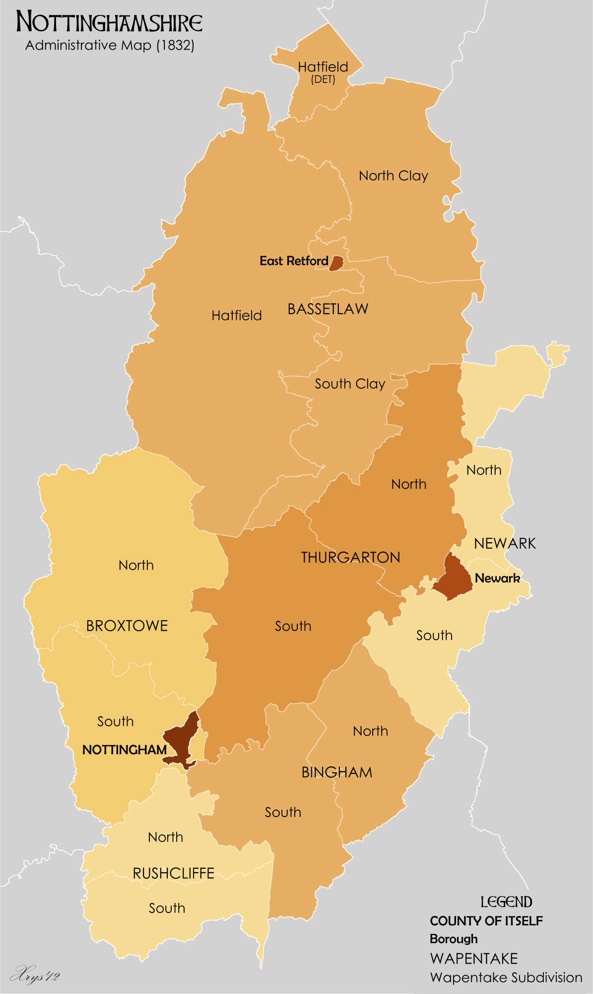 Administrative map of the county of Nottinghamshire in 1832. Showing Wapentakes (with sub-divisions), extant Boroughs and the County of Itself of Nottingham. Wapentake boundaries from University of Nottingham English Place Name Society. Source data for parish boundaries - Kain, R.J.P., and Oliver, R.R. (2001) "Historic parishes of England and Wales". Unit names from Vision of Britain website.